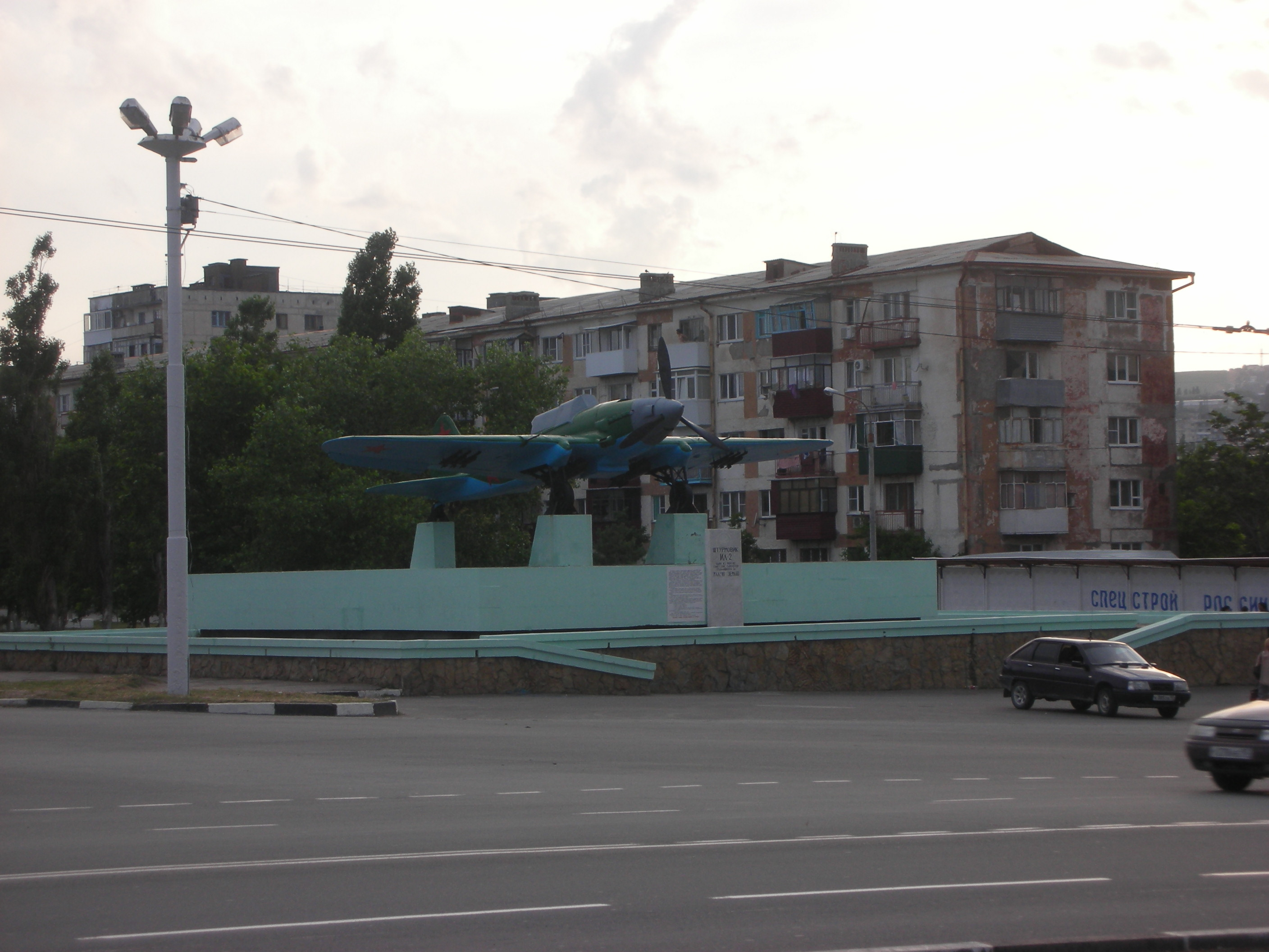 IL-2 memorial Novorossiysk (aka "Samolyot")